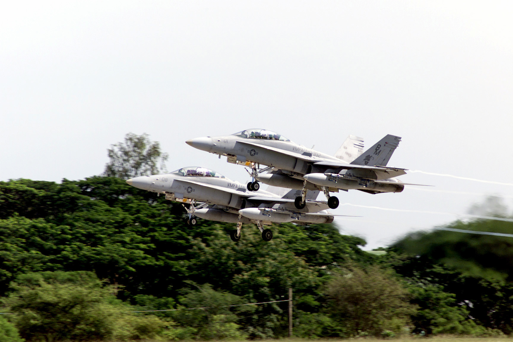 Two U.S. Marine Corps McDonnell Douglas F/A-18D Hornet aircraft assigned to Marine all-weather fighter-attack squadron VMFA(AW)-332 Moonlighters take off at Royal Thai Air Force Base Korat, Thailand, during Exercise “Cobra Gold 2000” on 10 May 2000. Note that the aircraft do not wear the VMFA(AW)-332 tail code "EA", but the Marine Corps Air Station Beaufort, South Carolina (USA), tail code "BM".